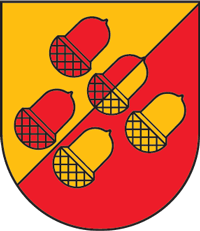 Coat of arms of the city of Viesīte, Latvia.